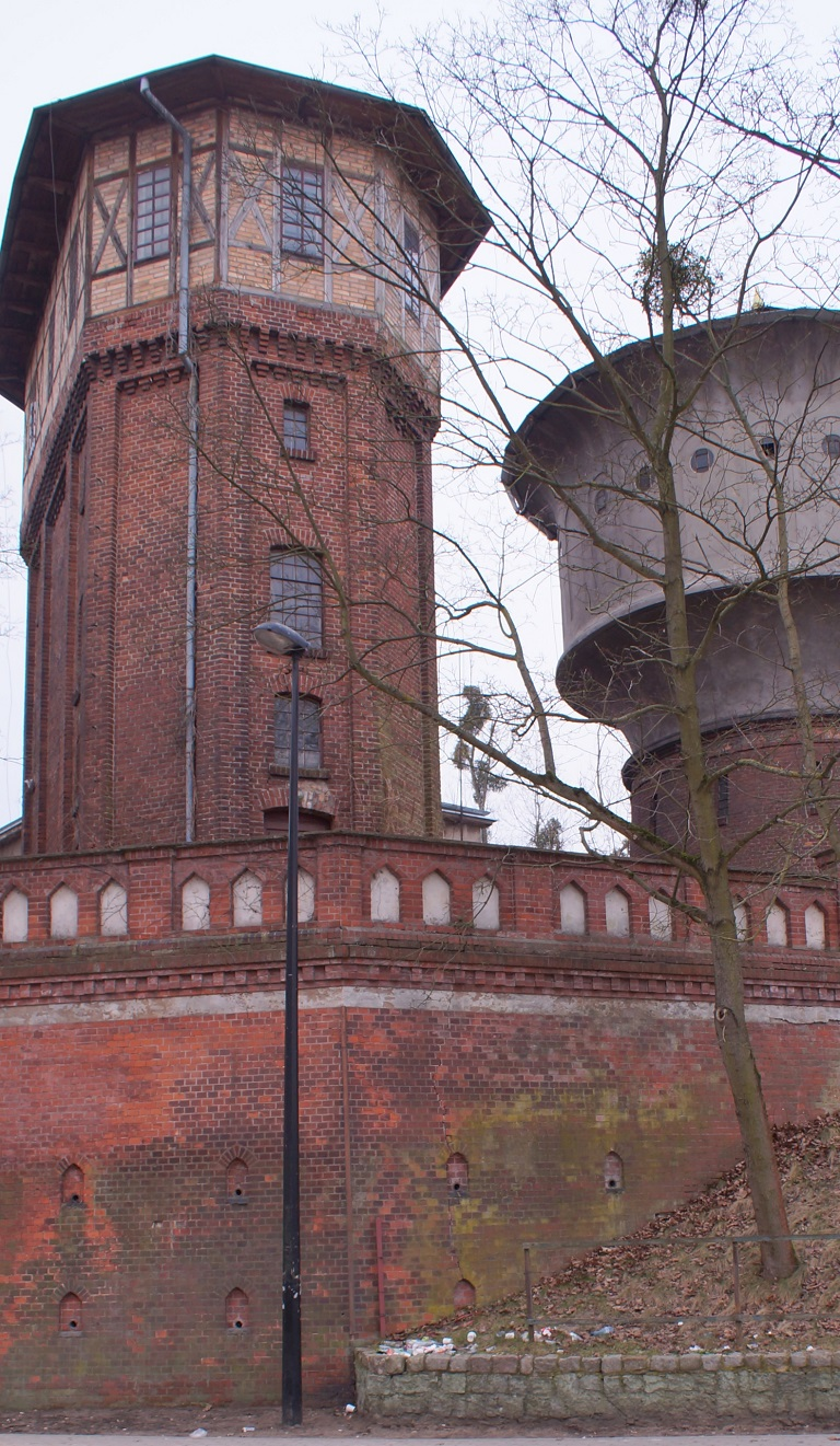 Iława, water tower, built in 1871